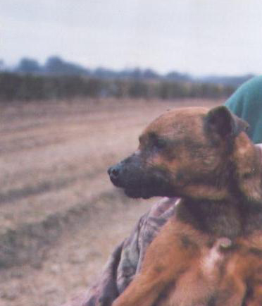 Bedale Hunt terrier : photo by R.W. de Salis, February 2005. User:RodolphRodolph 15:41, 22 January 2007 (UTC)